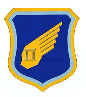 Emblem of the USAF 2d Air Division, based on the emblem of the World War II 2d Bombardment Division, which was on a disc.)